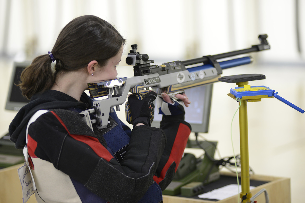 Junior shooters from around the country compete in the 2014 U.S. Army Junior Air Rifle Competition at Fort Benning, Ga., Feb. 24 to Feb. 26. The Army Marksmanship Unit hosted the event and provided a clinic for the shooters on the first day. (U.S. Army Photo by Sgt. 1st Class Raymond J. PIper) To view more photos from the competition, visit